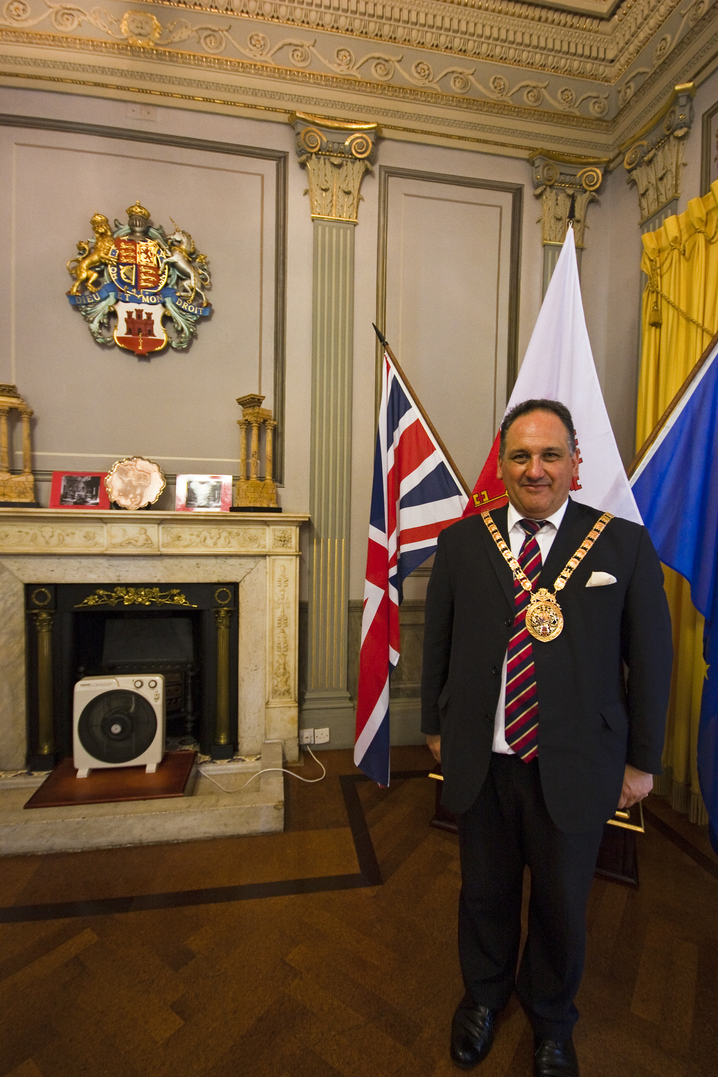 Anthony Lombard, Mayor of Gibraltar 2010-2011 at Gibraltar City Hall.